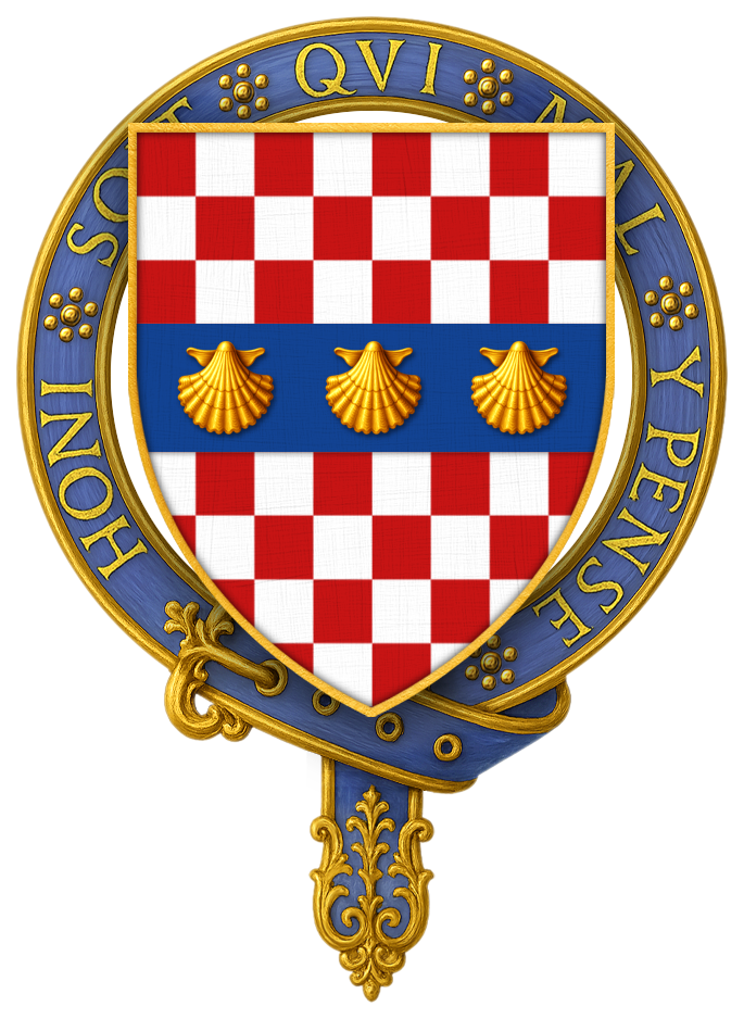 Coat of arms of Sir Robert Rochester, KG BURKE, Sir Bernard, The General Armory of England, Scotland, Ireland, and Wales: Comprising a Registry of Armorial Bearings from the Earliest to the Present Time, London: Harrison & sons, 1884. “Rochester (Sir Robert Rochester, K.G., elected 23 April, 1557, d. 28 Nov. following, without being installed). Chequy ar. and gu. on a fess az. three escallops or.”